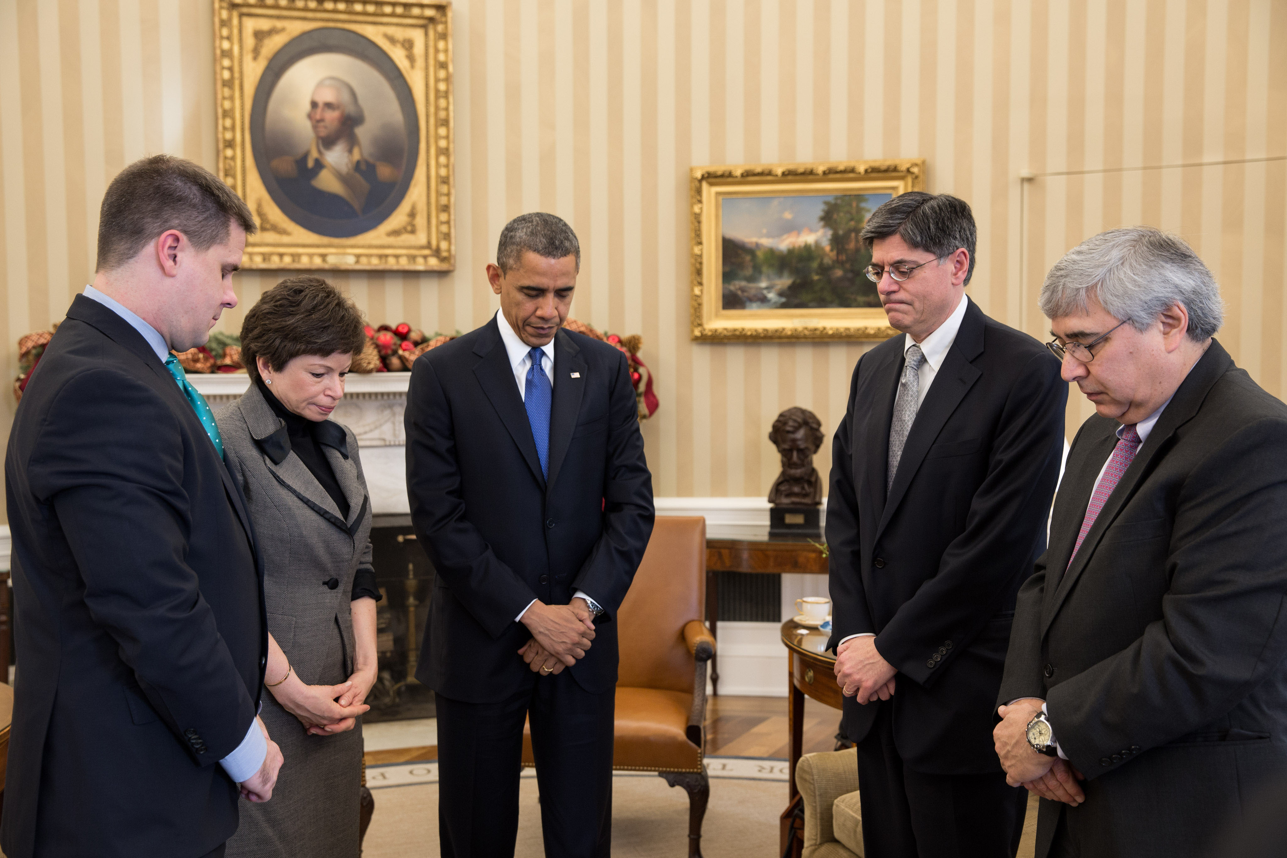 United States President Barack Obama pauses during a meeting to observe a moment of silence in the Oval Office at 9:30 am on 21 December 2012, to remember the 20 children and six adults killed in the Sandy Hook Elementary School shooting in Newtown, Connecticut on 14 December. Left to right: Director of Communications Dan Pfeiffer; Senior Advisor Valerie Jarrett; President Barack Obama; Chief of Staff Jack Lew; and Pete Rouse, Counselor to the President. (P122112PS-0015)